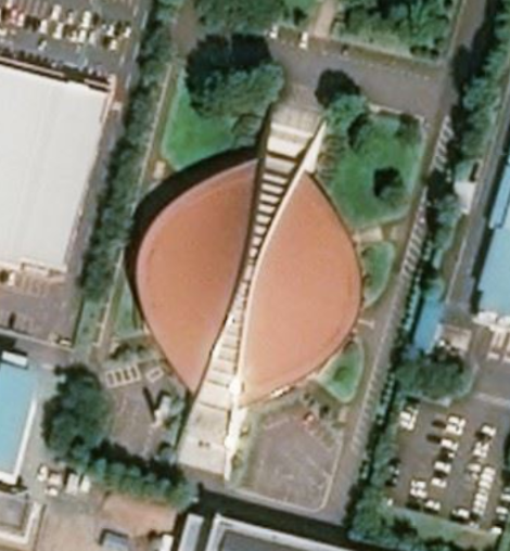 Satellite view